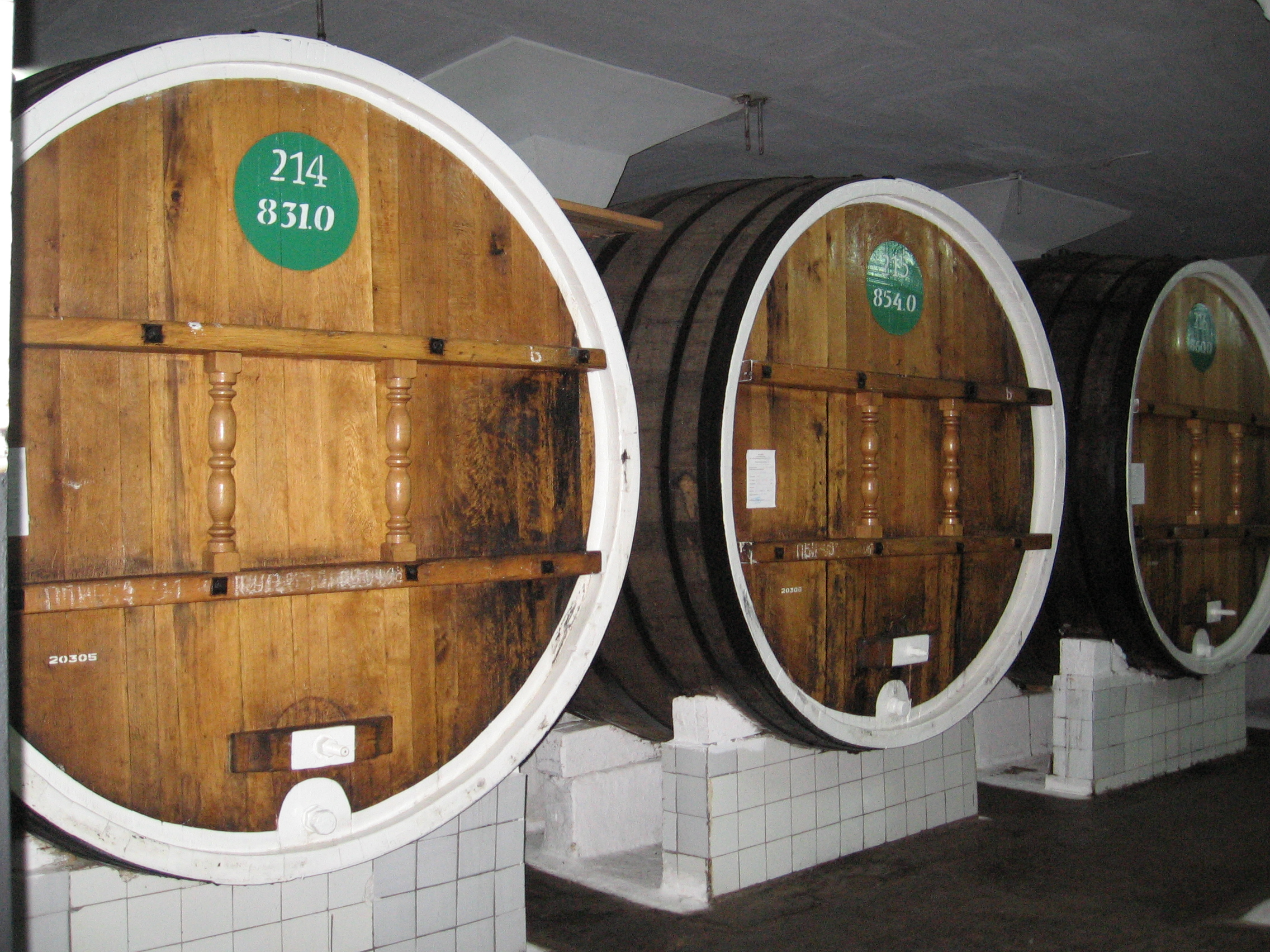 Massandra wine cellar, Crimea